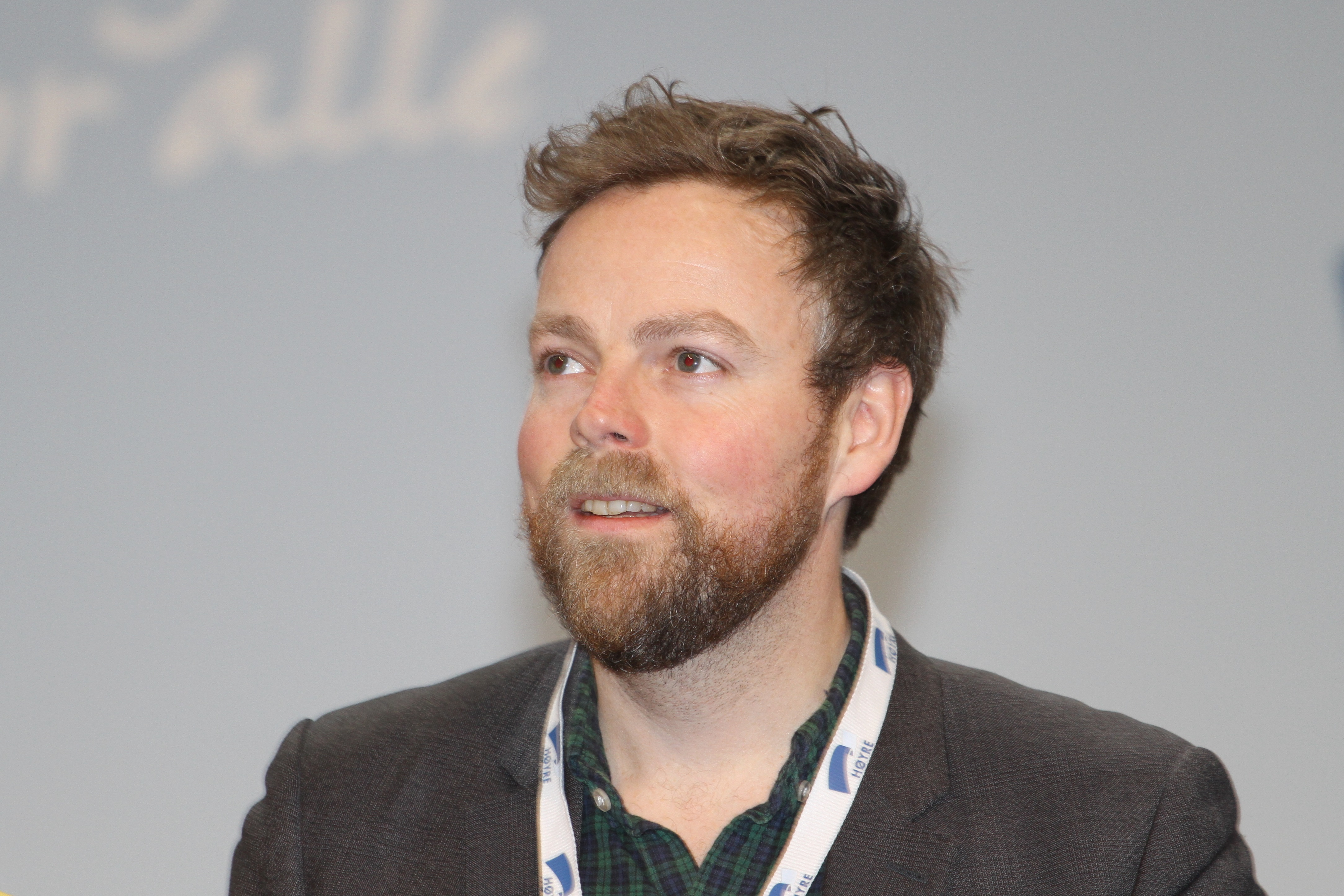 Torbjørn Røe Isaksen